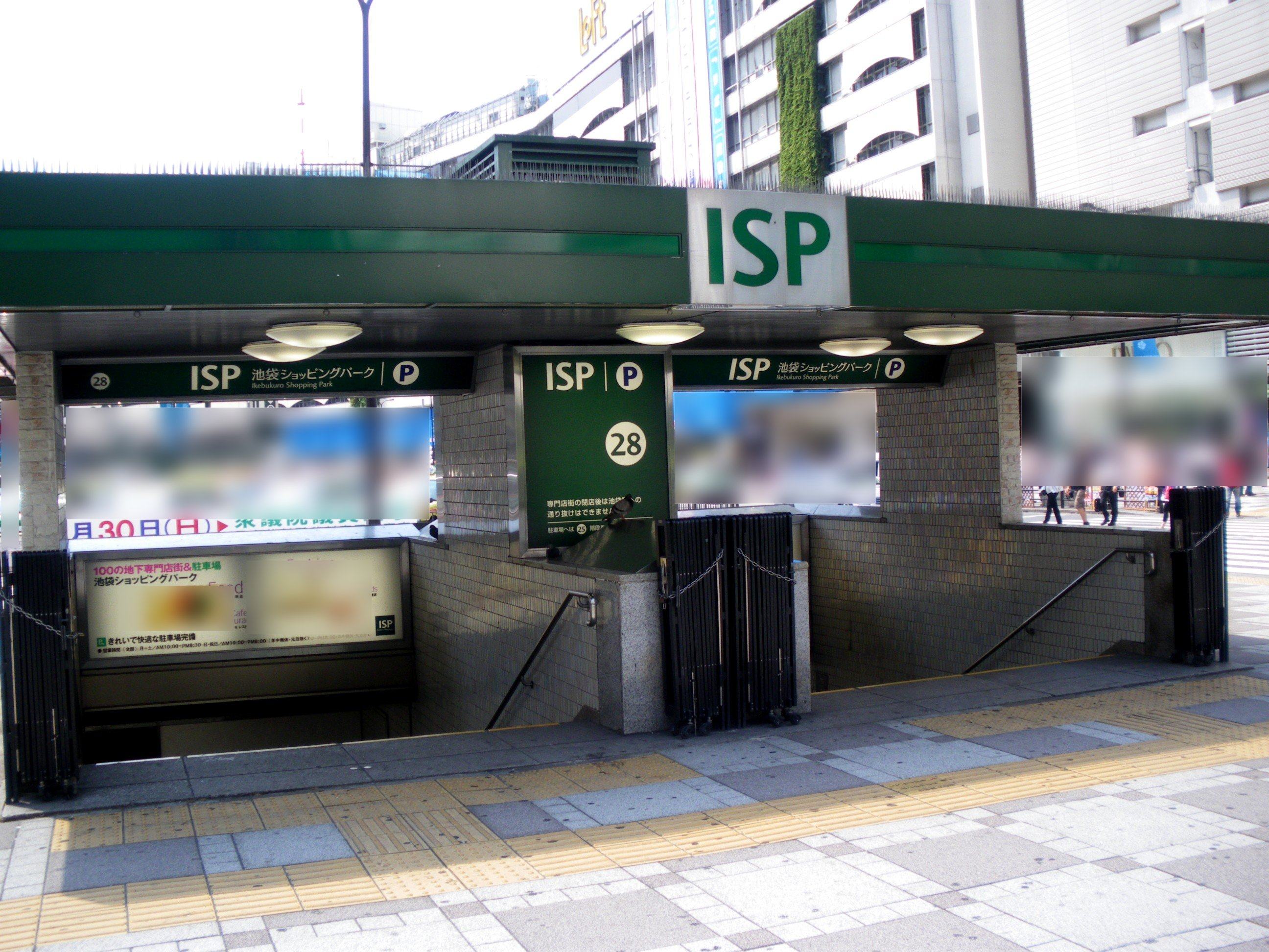 An entrance of Ikebukuro Shopping Park (an underground mall at Ikebukuro Station), in Minamiikebukuro, Toshima-ku, Tokyo, Japan